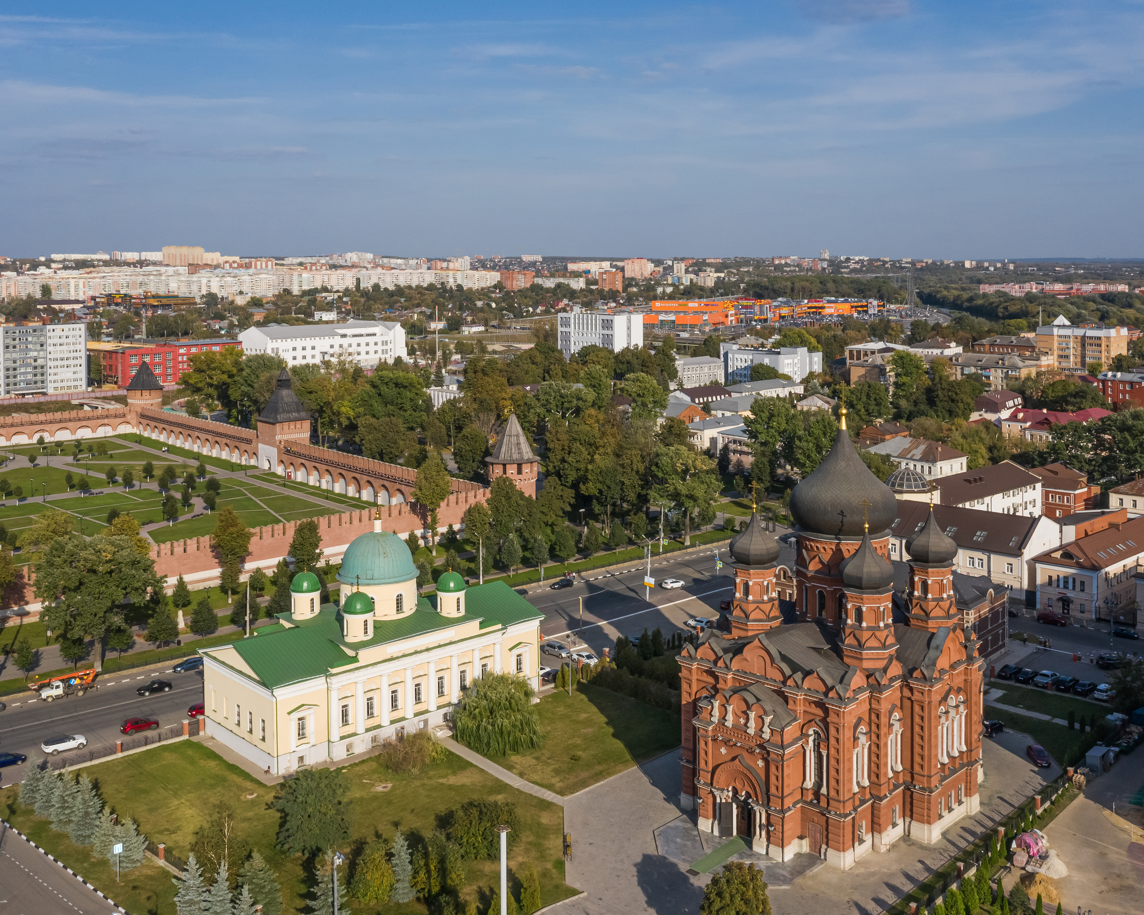 Aerial photo of the former Uspensky Convent in Tula, Russia